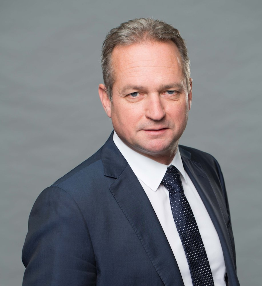 Sören Hartmann, CEO of DER Touristik Group